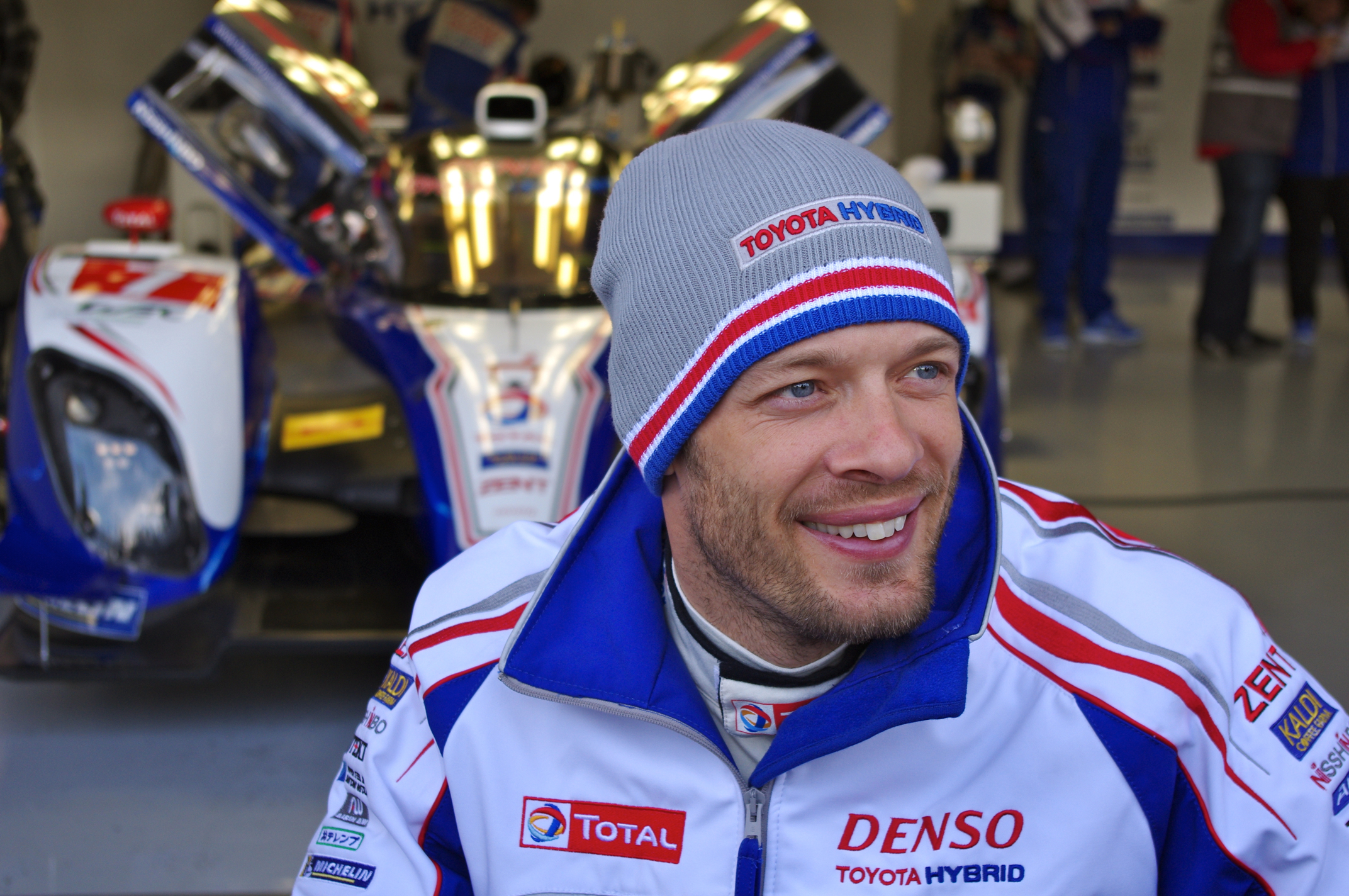 WEC Silverstone 6 Hours 2013: Alexander Wurz (Toyota)